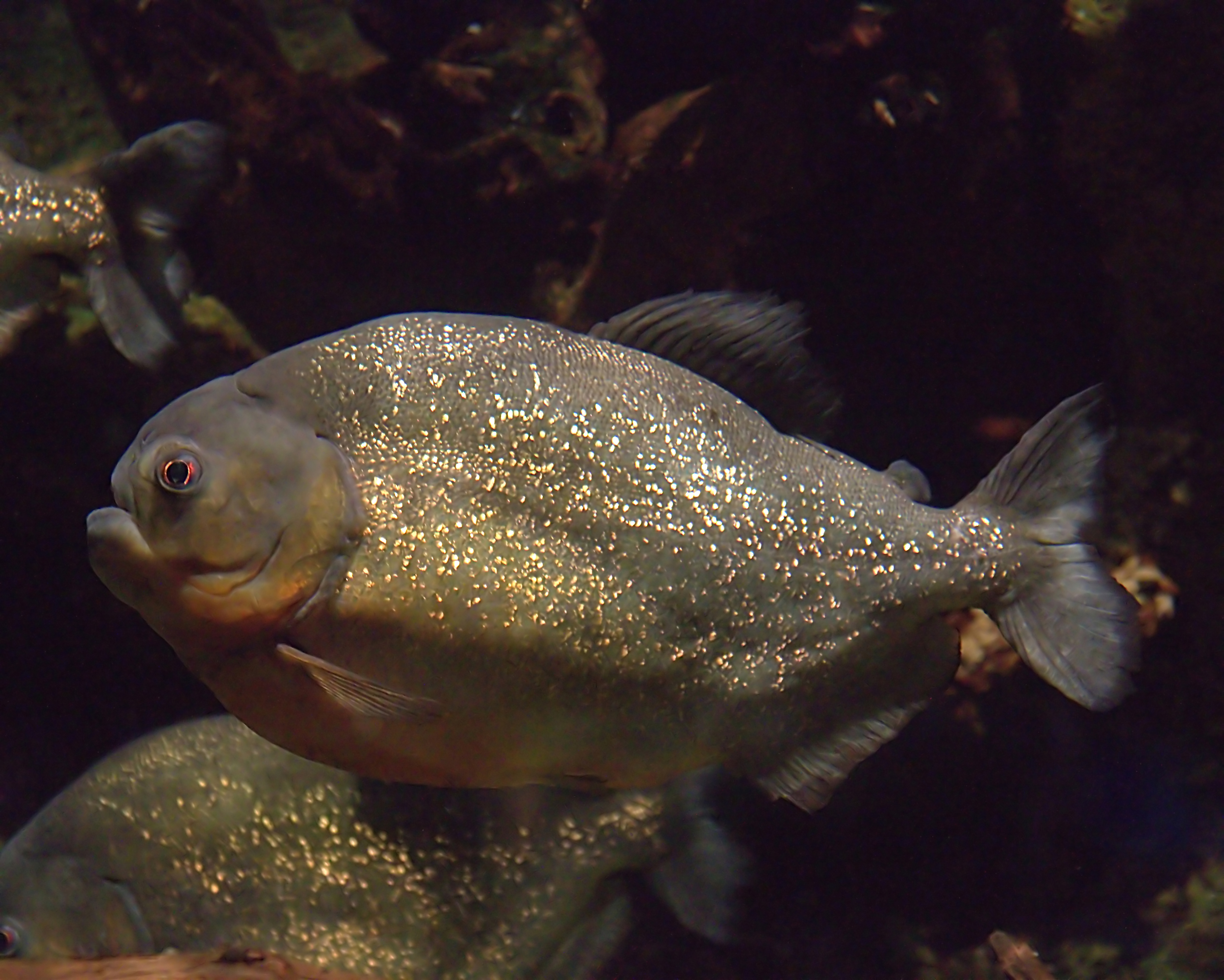 Pirhana - taken at the Newport, Ky aquarium.